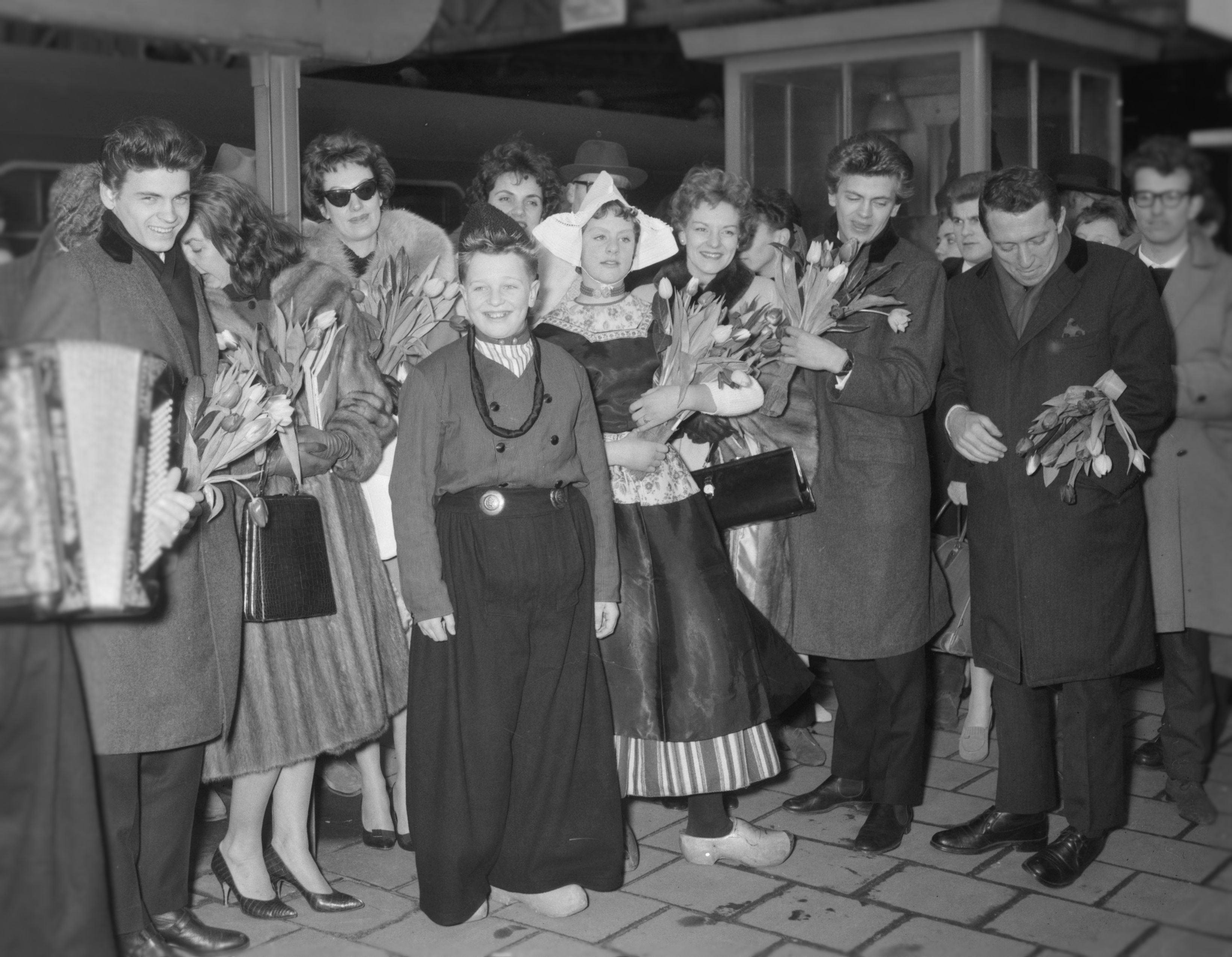 The Everly Brothers, The Chordettes & Andy Williams at Amsterdam Central Railway Station, 24 January 1959